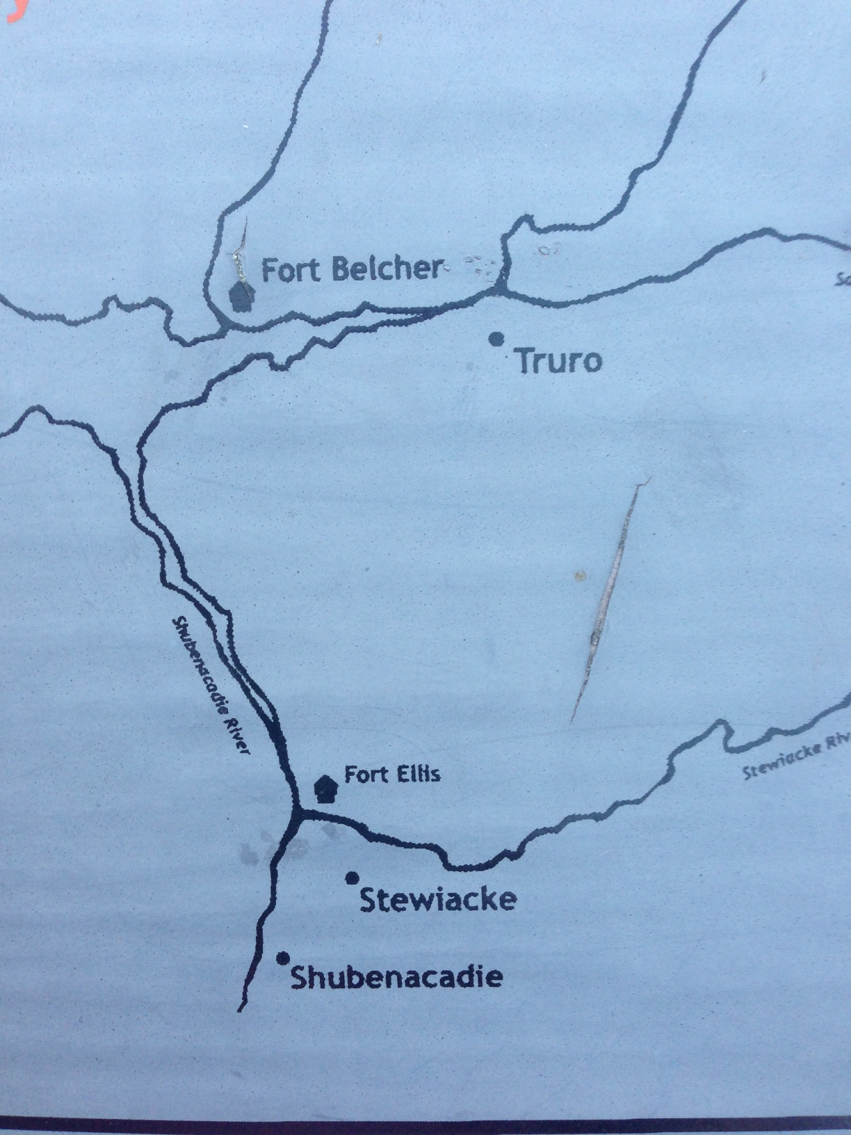 Photo of map at Mastodon Ridge, Stewiacke, Nova Scotia